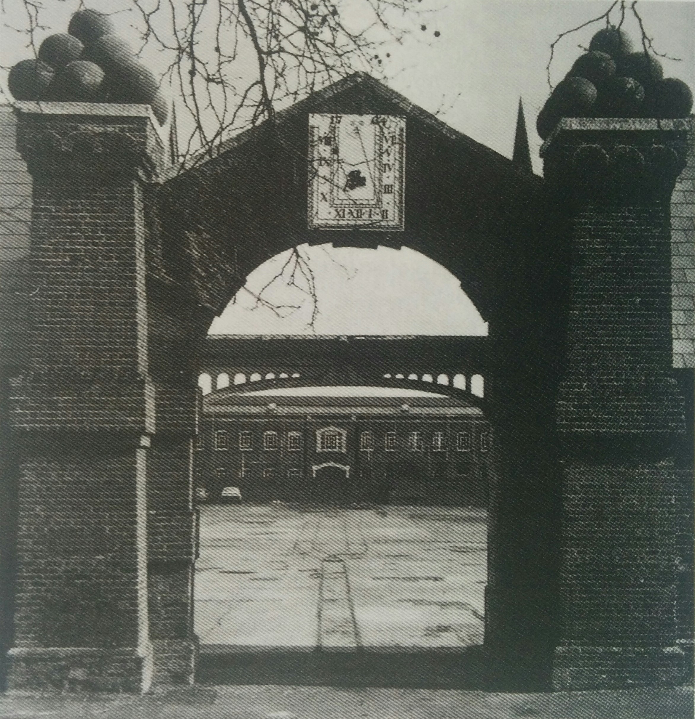 Historical photo of the arch joining two workshops and leading into Dial Square. The arch still stands today.